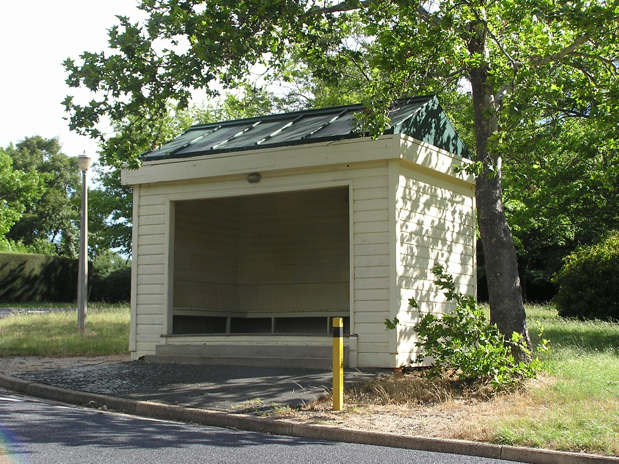 Bus shelter, Forrest, Australian Capital Territory